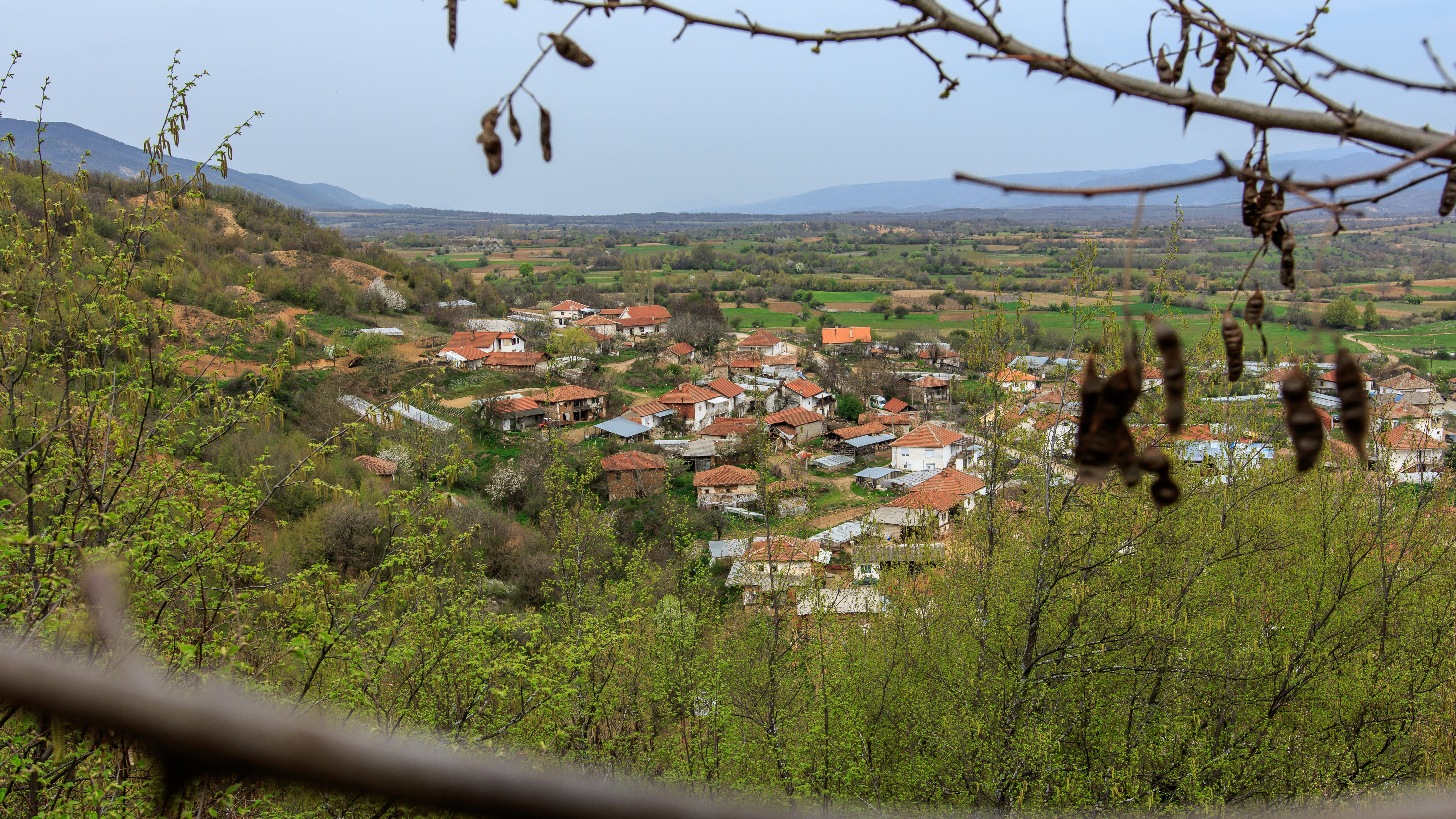 View of the village Lubnica, Macedonia